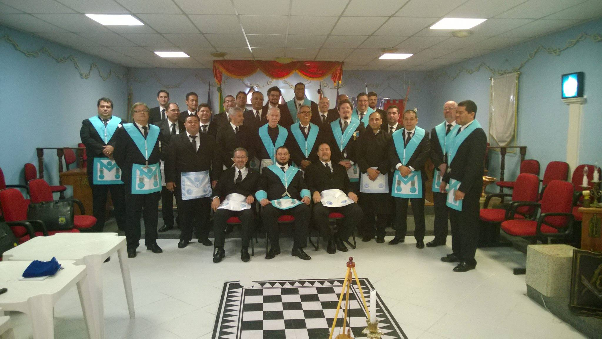 Freemason Lodge Arcanum Arcanorum, 4269 - Brazil